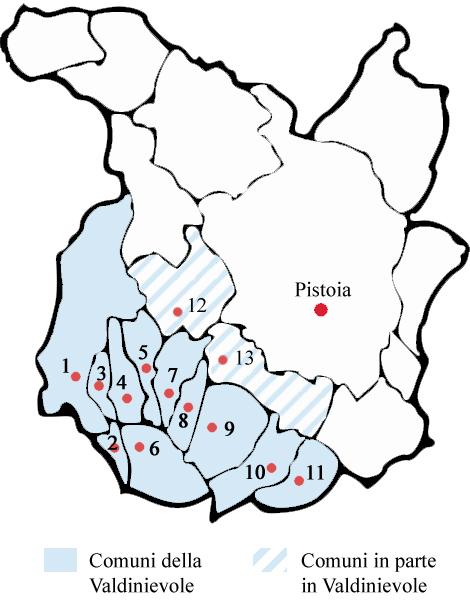 Comuni of Valdinievole shown within the Province of Pistoia